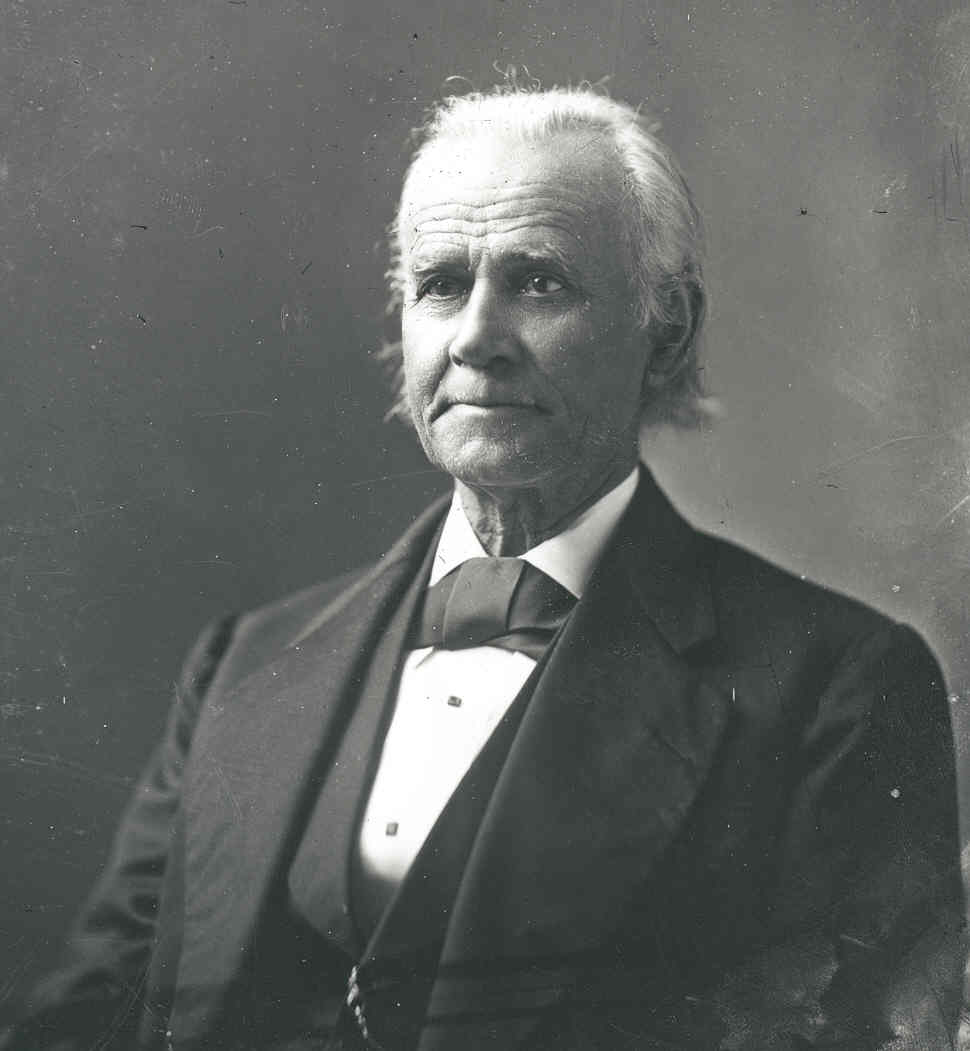 Judge Francis Thomas Anderson, Sr., from Confederate Veteran Magazine